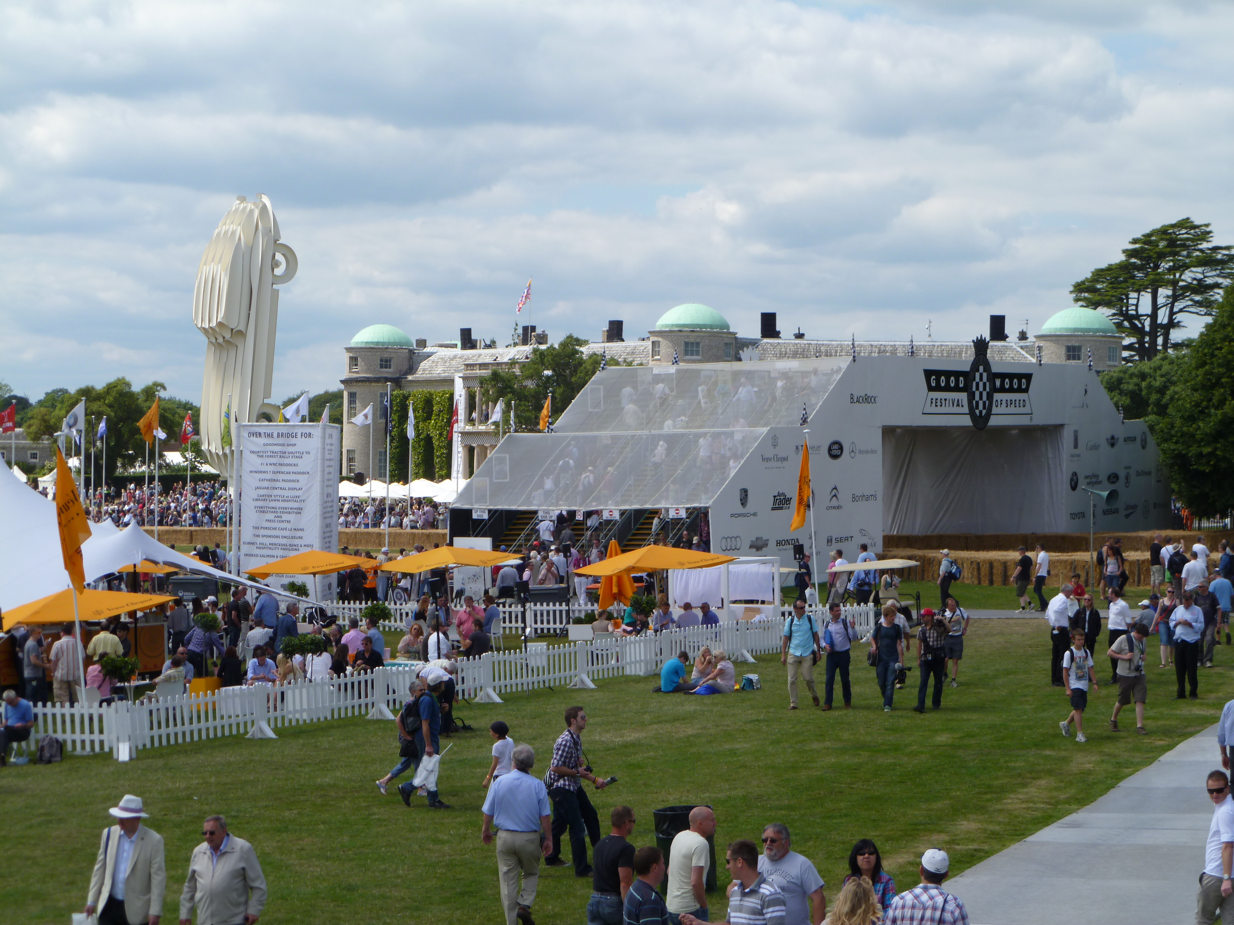 A photograph I took from the Audi stand at the 2011 Goodwood FoS